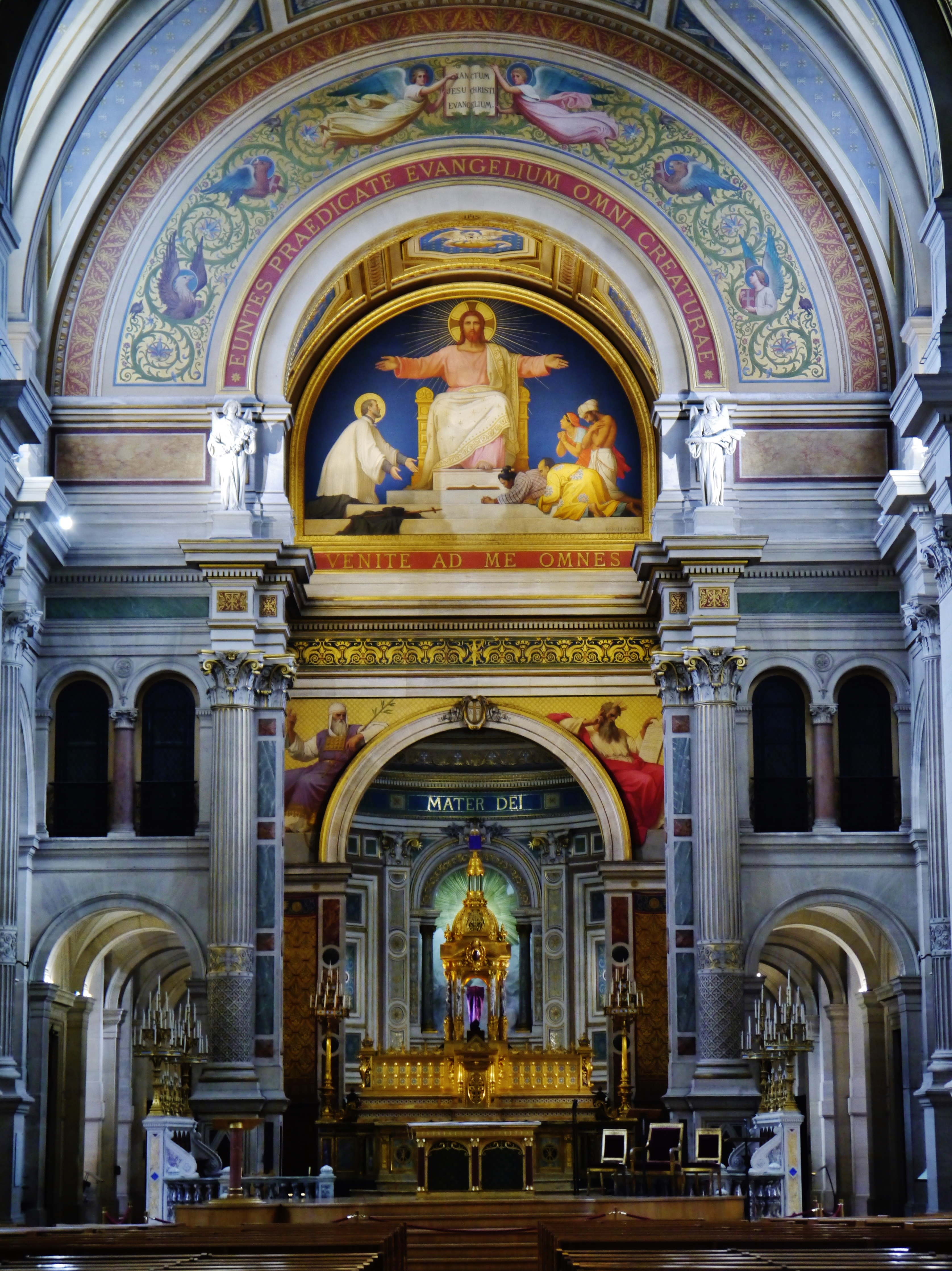 Choir Wall of the Church St. Francis Xavier of the Foreign Missions, Paris, Region of Île-de-France, France